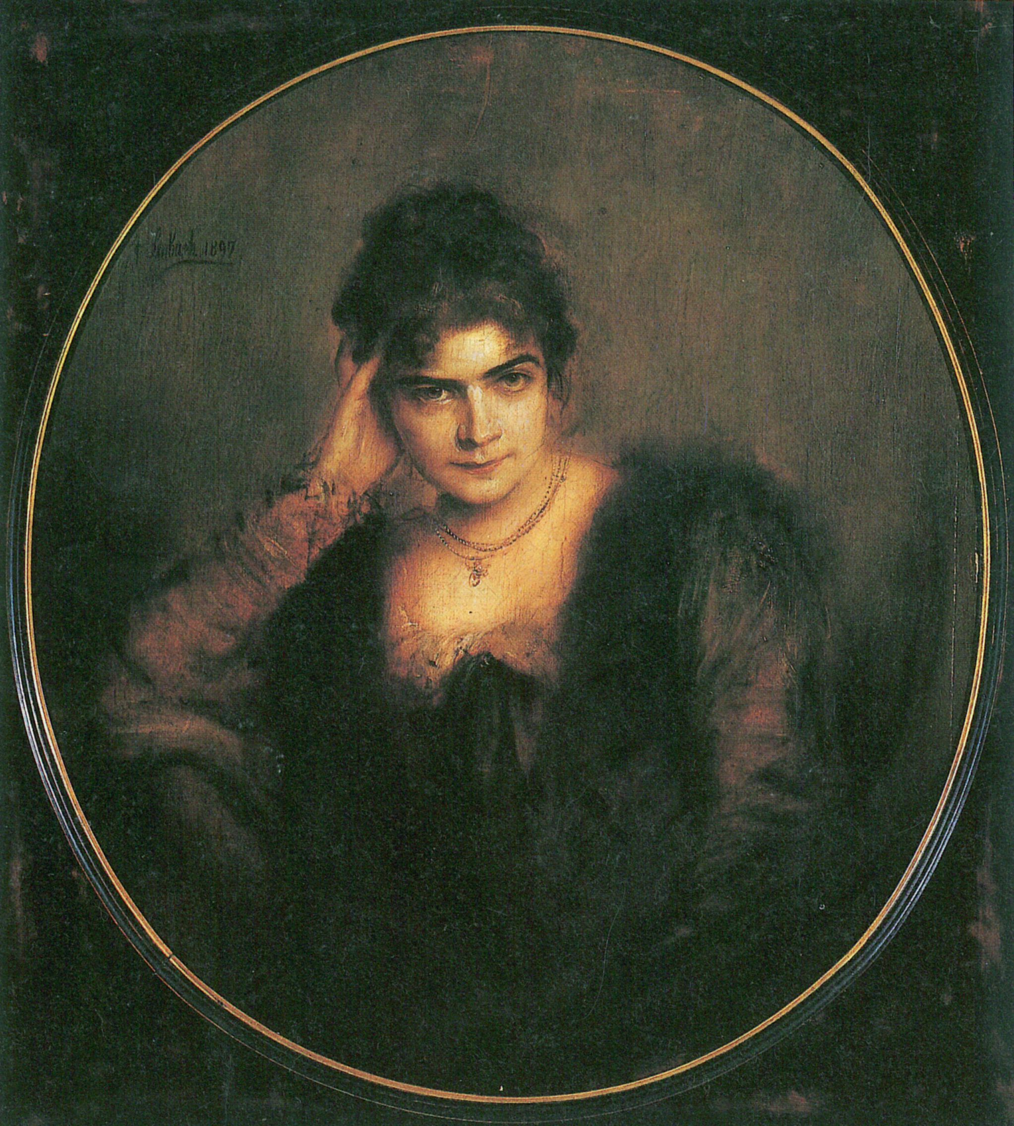 Franz von Lenbach, portrait of his second wife Charlotte, property of family DuMont